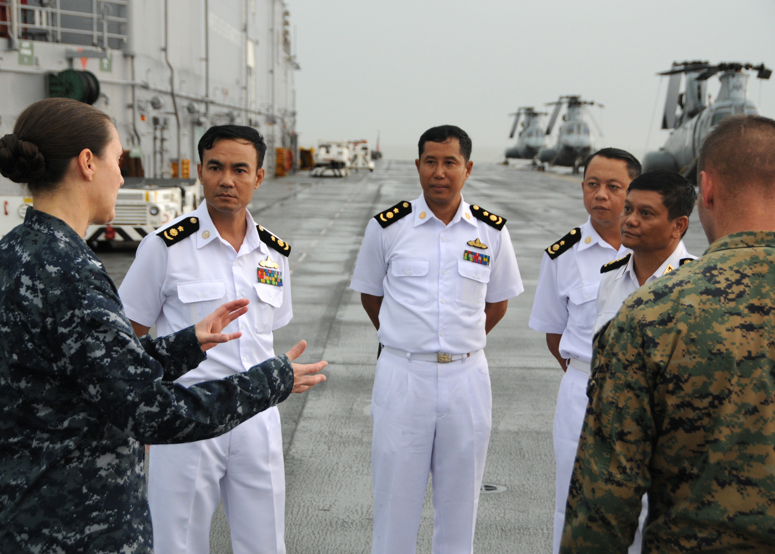 ANDAMAN SEA (Nov. 18, 2012) Capt. Heidi Agle, deputy commodore of Amphibious Squadron (PHIBRON) 11, explains the flight deck capabilities of the amphibious assault ship USS Bonhomme Richard (LHD 6) during a tour for Myanmar naval officers. (U.S. Navy photo by Mass Communication Specialist 1st Class Mark R. Alvarez/Released) 121118-N-RU841-004 Join the conversation navylive.dodlive.mil